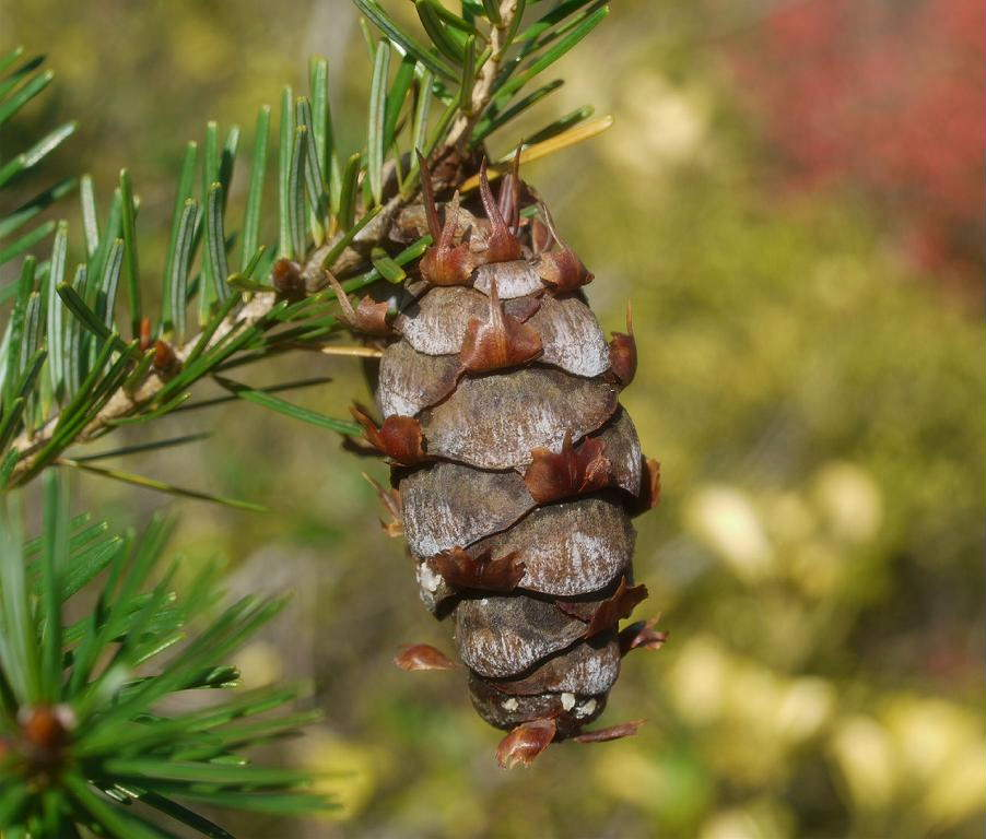 Pseudotsuga japonica (Pinaceae) Japanese name: togasawara ：トガサワラ Date; 2009-11-23; Tanabe City, Wakayama prefecture, Japan Author; Keisotyo